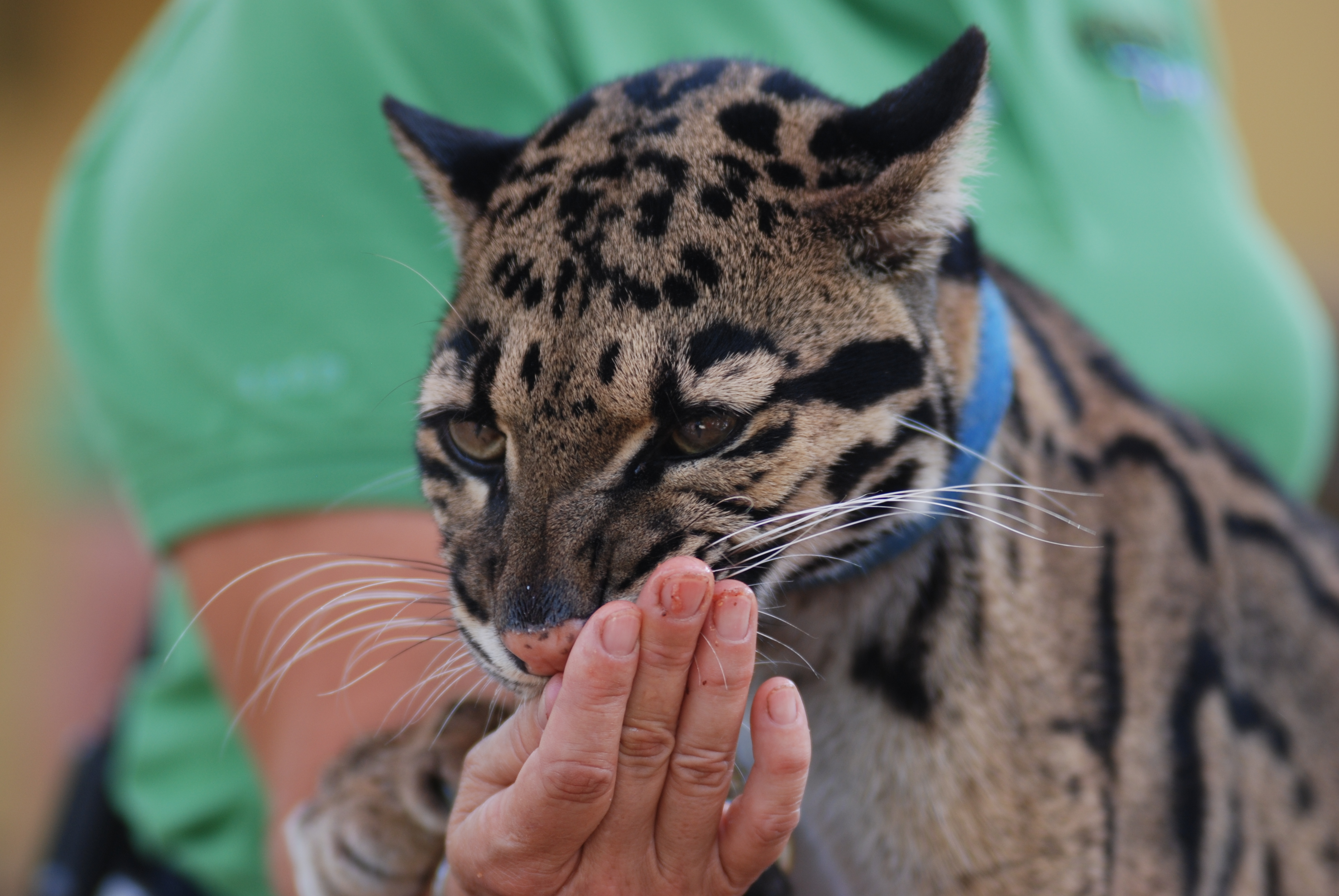 Clouded Leopard @ San Diego Zoo - Backstage Pass